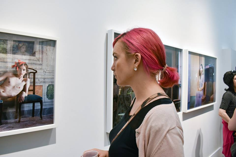 Sherri Nienass Littlefield at ClampArt during Lissa Rivera's "Beautiful Boy" exhibition. Summer, 2017.